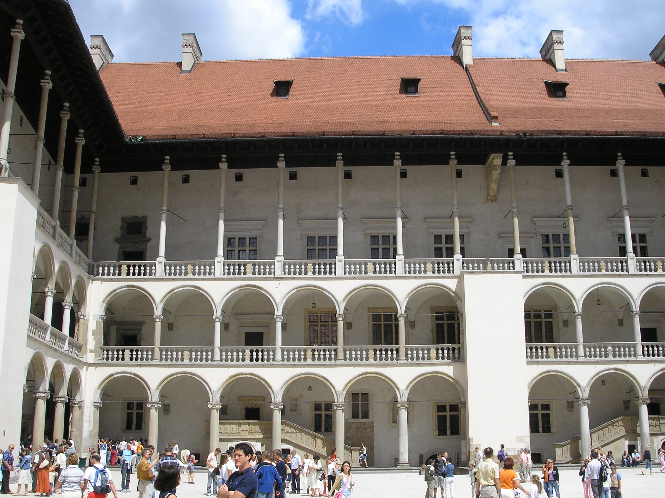 Courtyard of Wawel Royal Castle in Kraków.